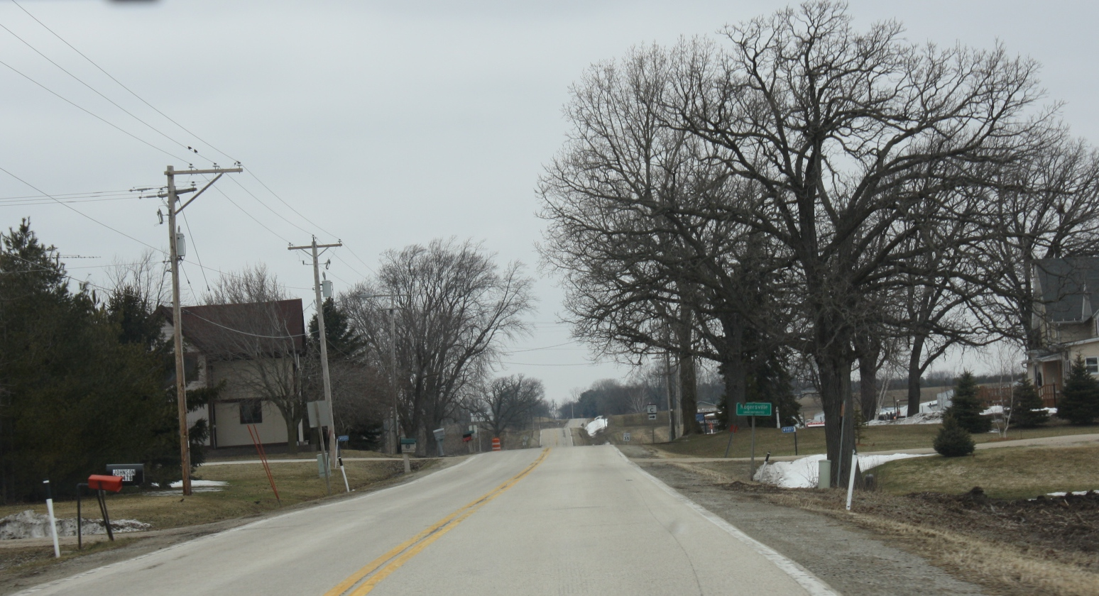 Looking west at the sign for Rogersville, Wisconsin.